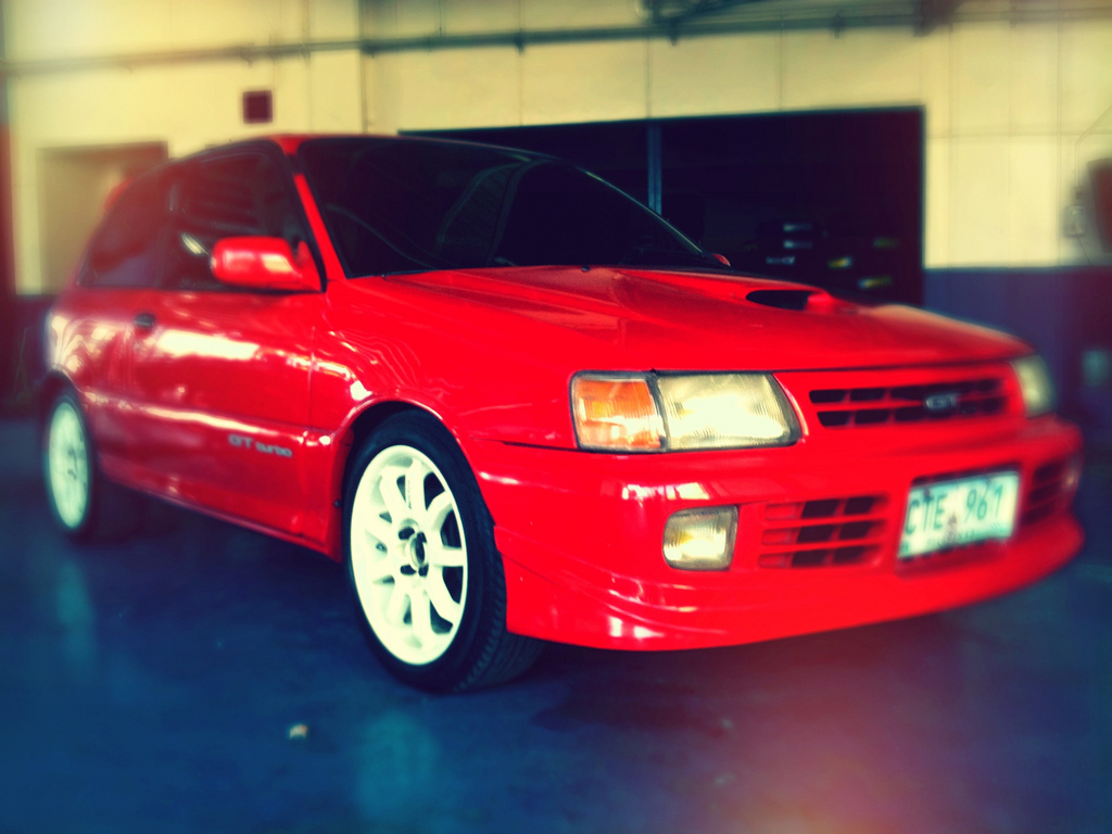 Toyota Starlet GT Turbo EP-82